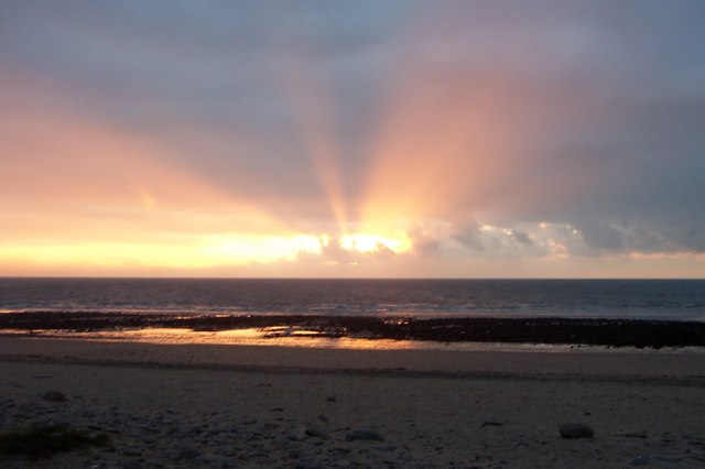 Sunrise, Carmarthen Bay 8:44